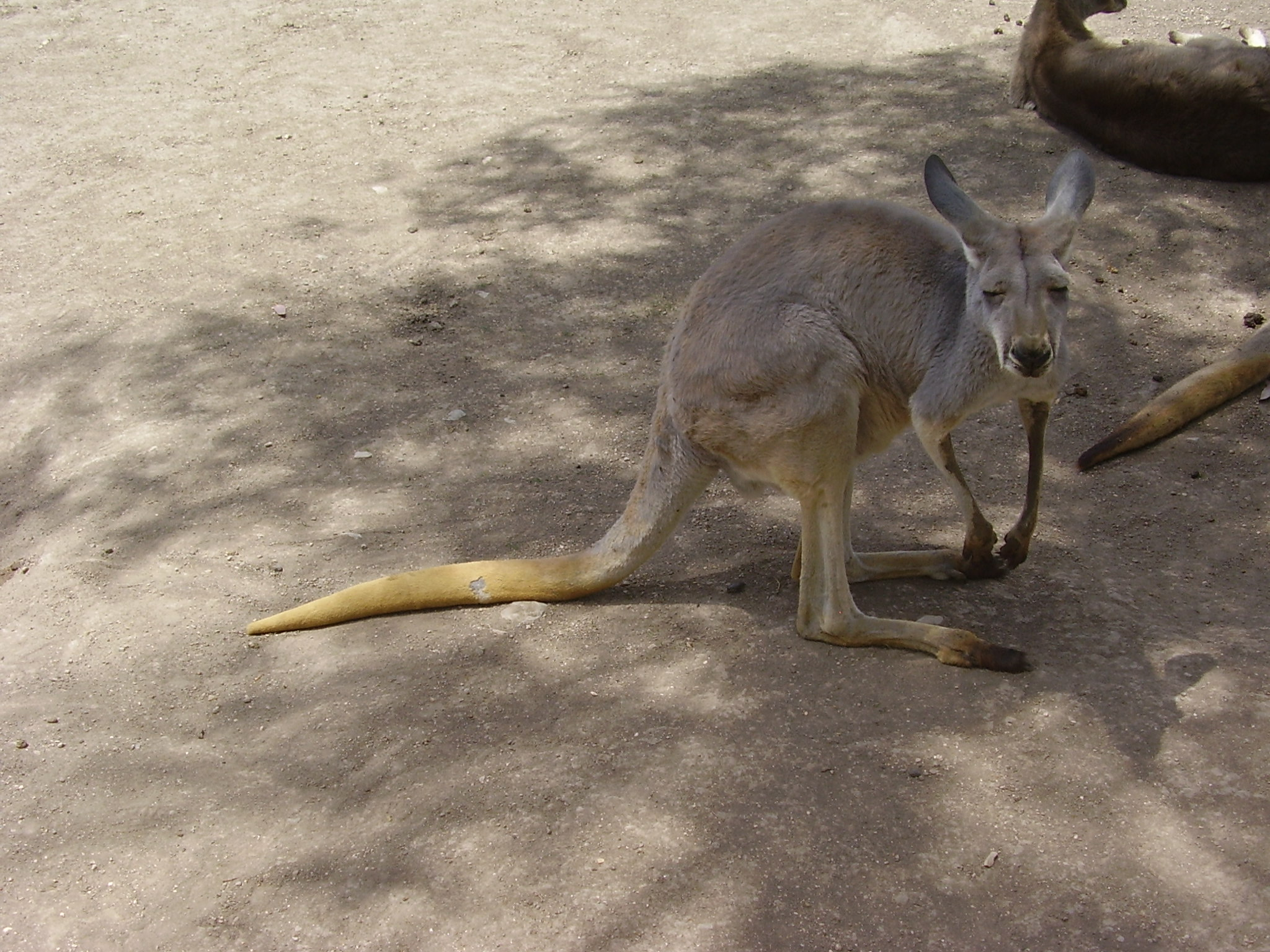 kangaroo in australia park (guru park), israel